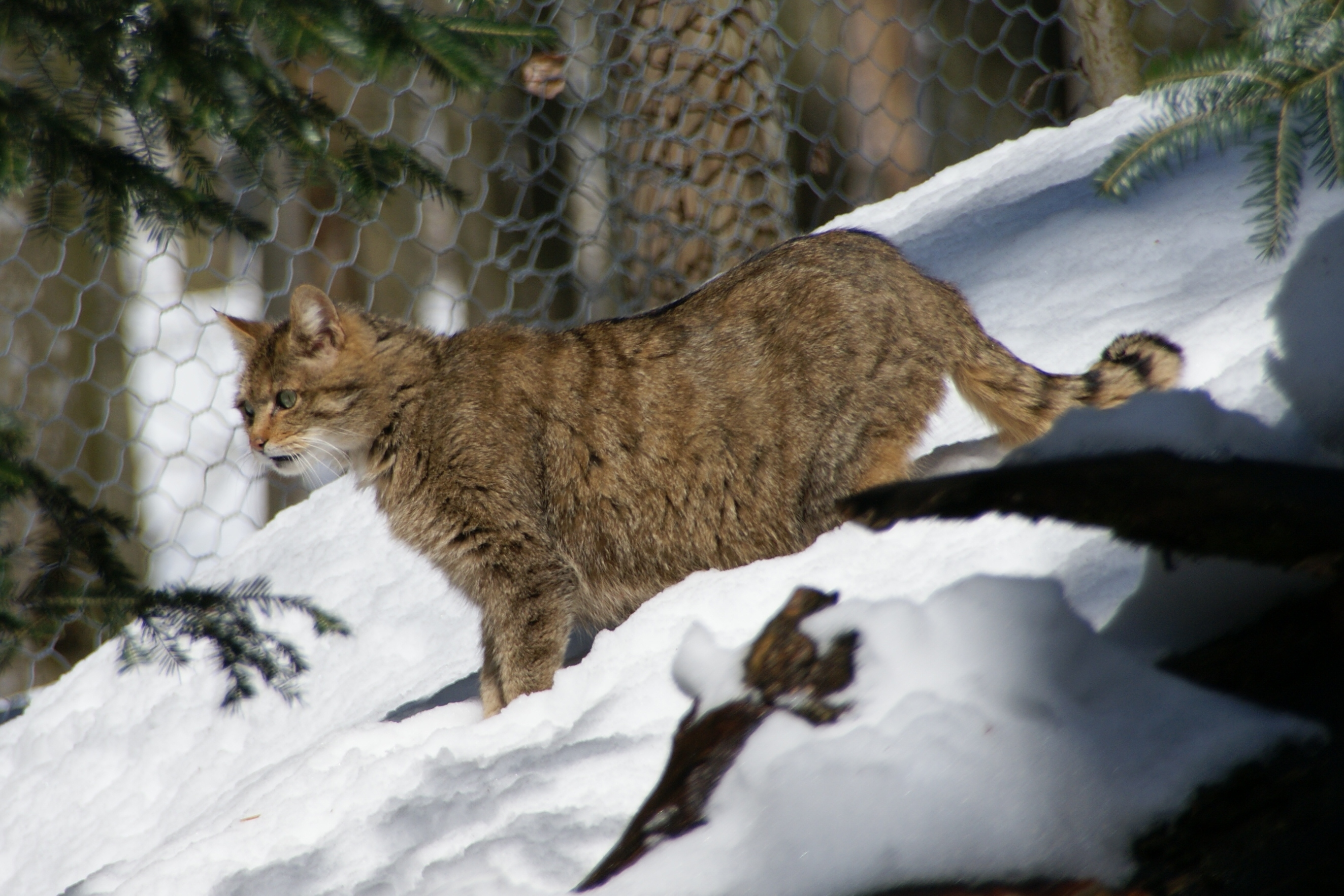 European Wildcat in an open-air enclosure at the Bavarian Forest National Park